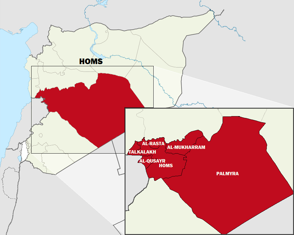 HOMS Governorate (not : Hama.png), on Syria Map with its subdistricts.